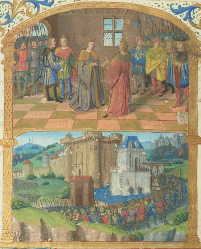 Events at Conflans